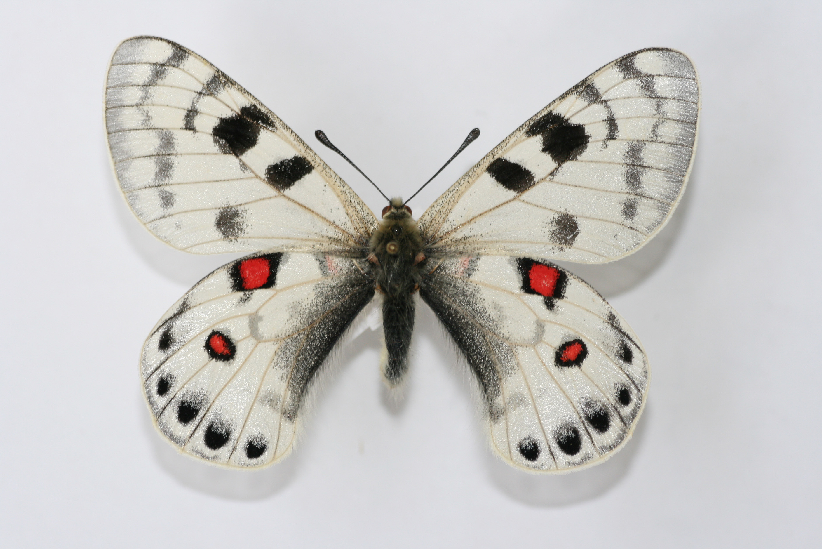 Parnassius davydovi male. Photo by Feix Stumpe